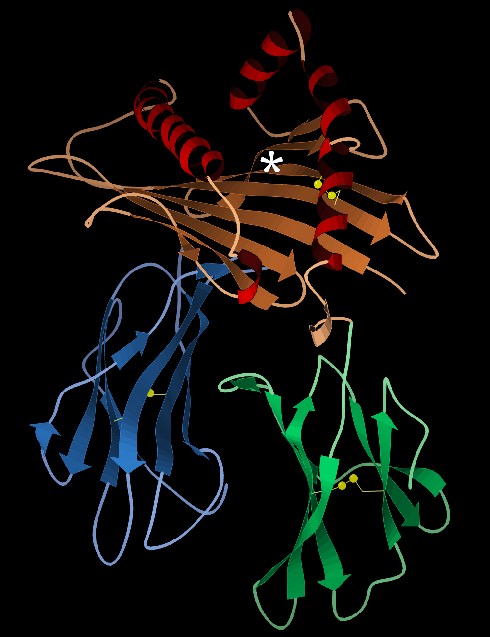 Ribbon schematic of protein HLA-A2 (PDB entry 3HLA), a human histocompatibility antigen of the major histocompatibility complex (MHC). The antigenic peptide is presented in the groove (star) between helices on the flat platter of beta-sheet on the upper (orange) domain; below are two immunoglobulin-type domains (green and blue. Disulfide bonds are in yellow.